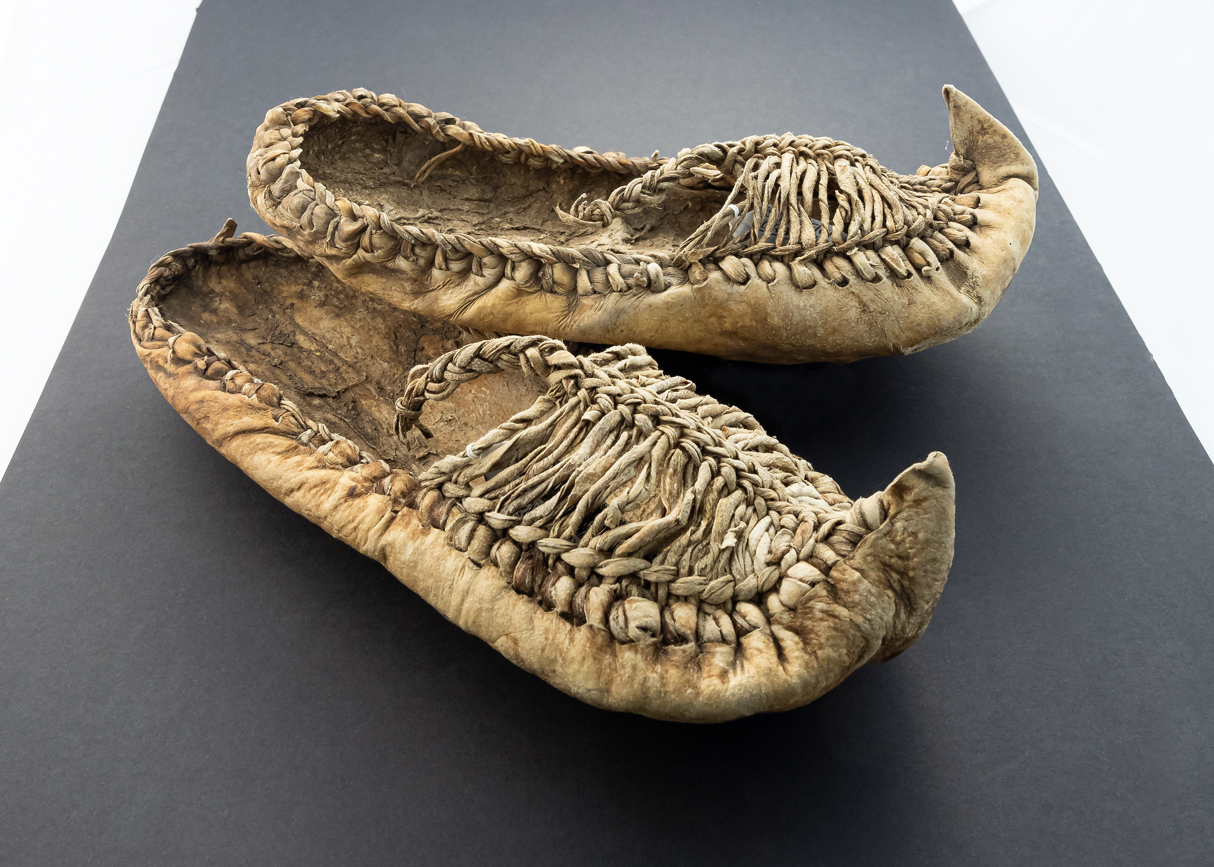 Opanci from Dalmatia, made ca. 1900. Austrian Museum of Folk Life and Folk Art in Vienna, Austria.